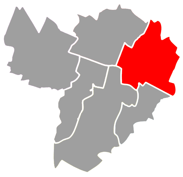 Map showing the six districts of Bologna with San Donato-San Vitale district highlighted in red.